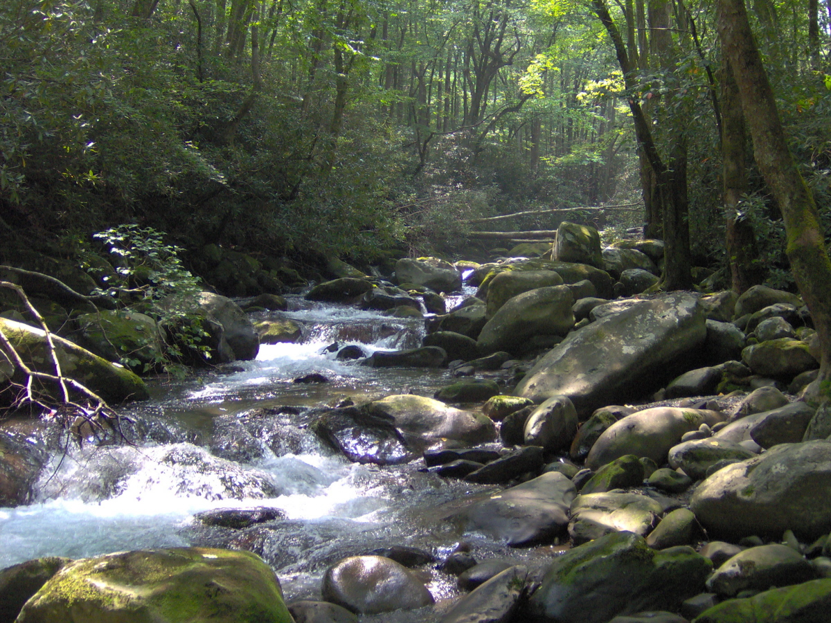 Porters Creek in the Greenbrier area of the Great Smoky Mountains National Park, just above the stream's junction with the Little Pigeon River in the U.S. state of Tennessee.